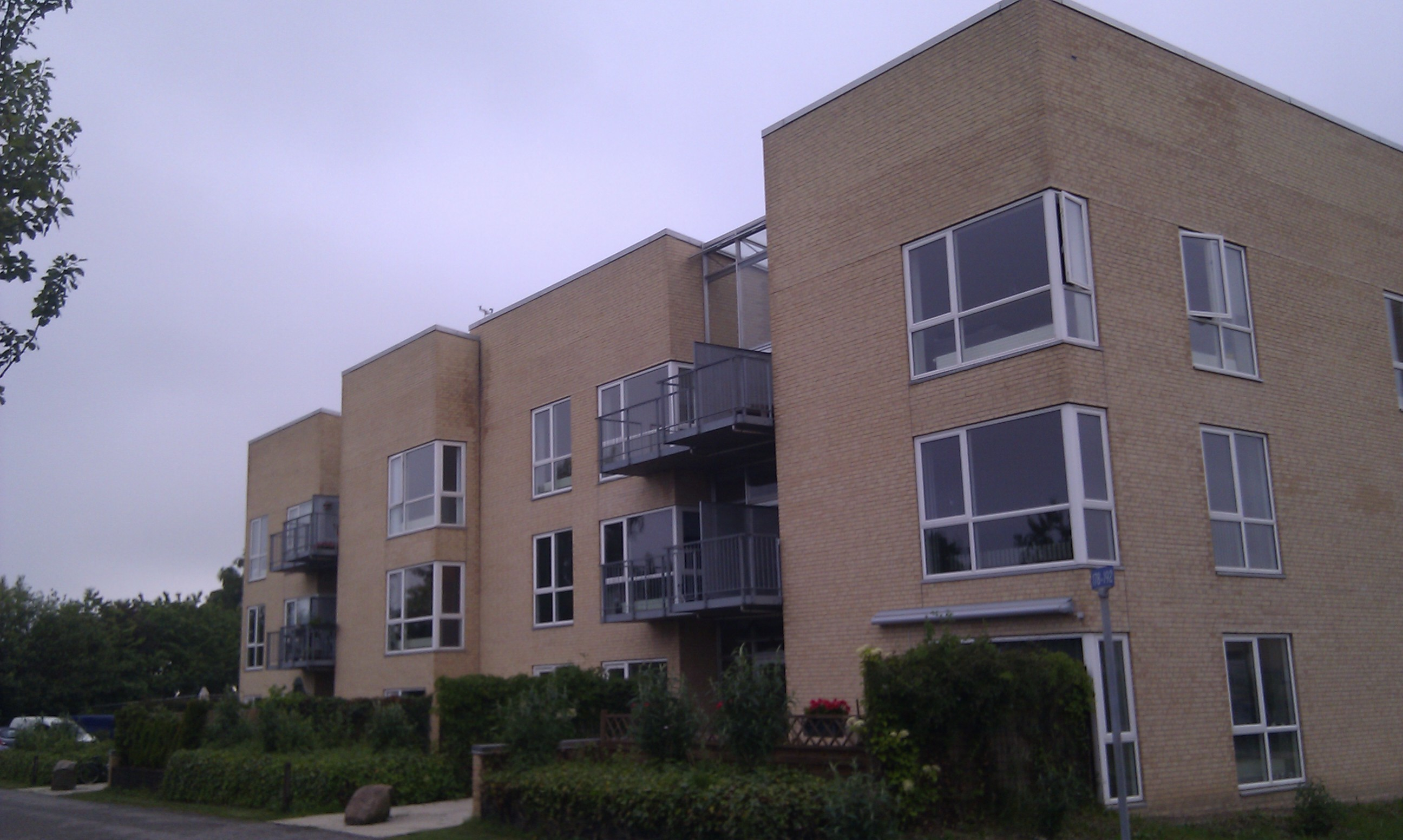 Housing estates in Holbæk, Denmark